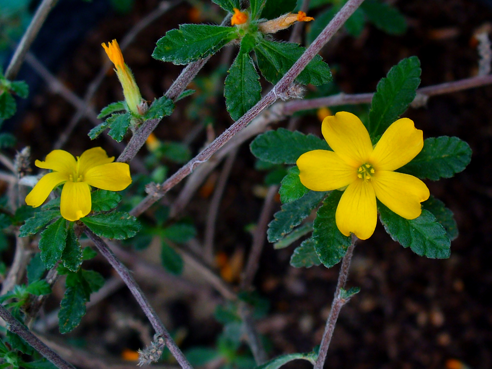 Turnera diffusa var. aphrodisiaca, Turneraceae, Damiana, flowers.